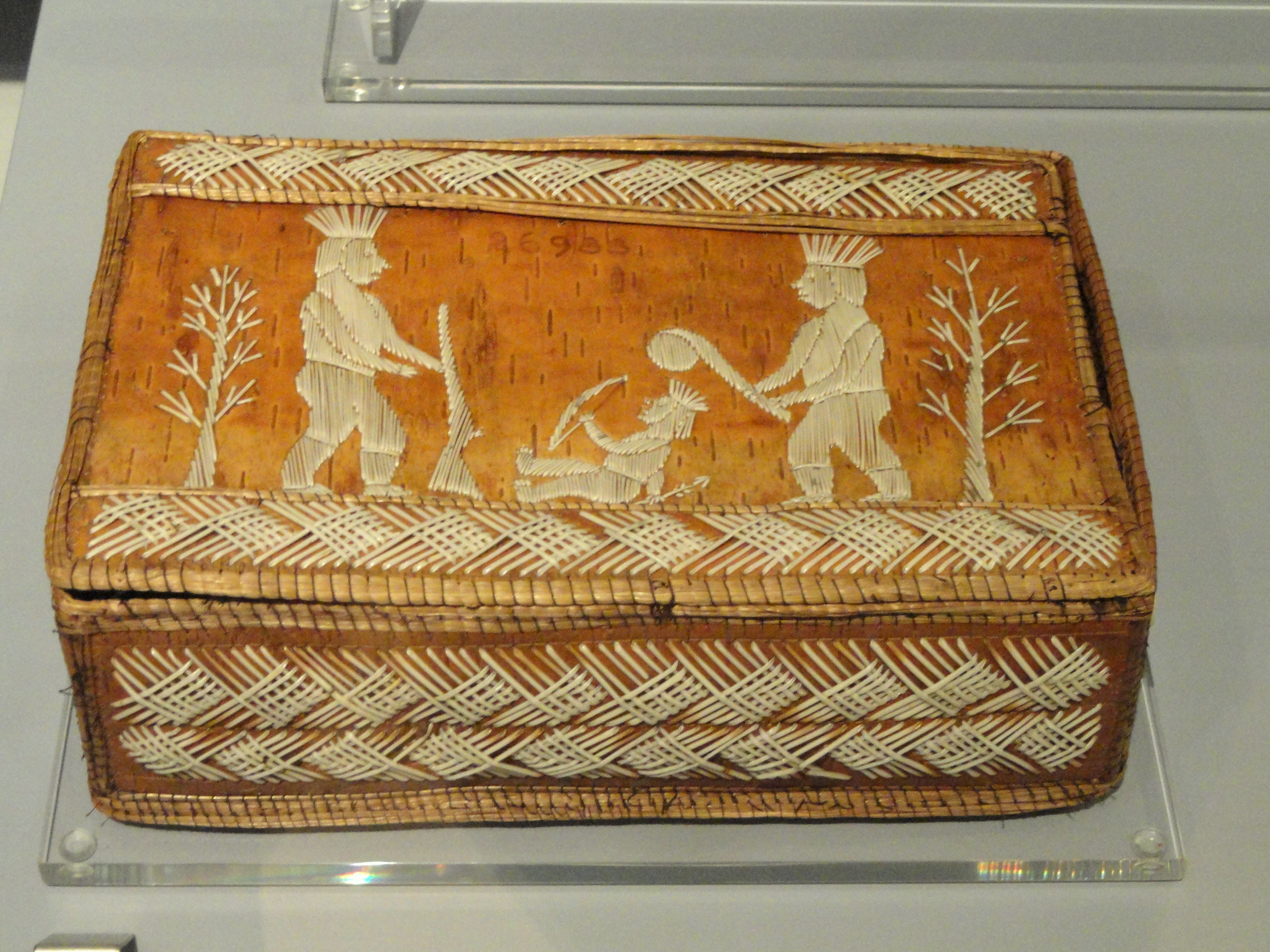 Exhibit in the Royal Ontario Museum, Toronto, Ontario, Canada. Photography was permitted in the museum. I took this photograph and release it into the public domain.